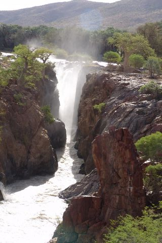 Kaokoland. Image taken by Charles Fred on flickr. The creator has granted GFDL licensing and permission for use in the wikimedia project.